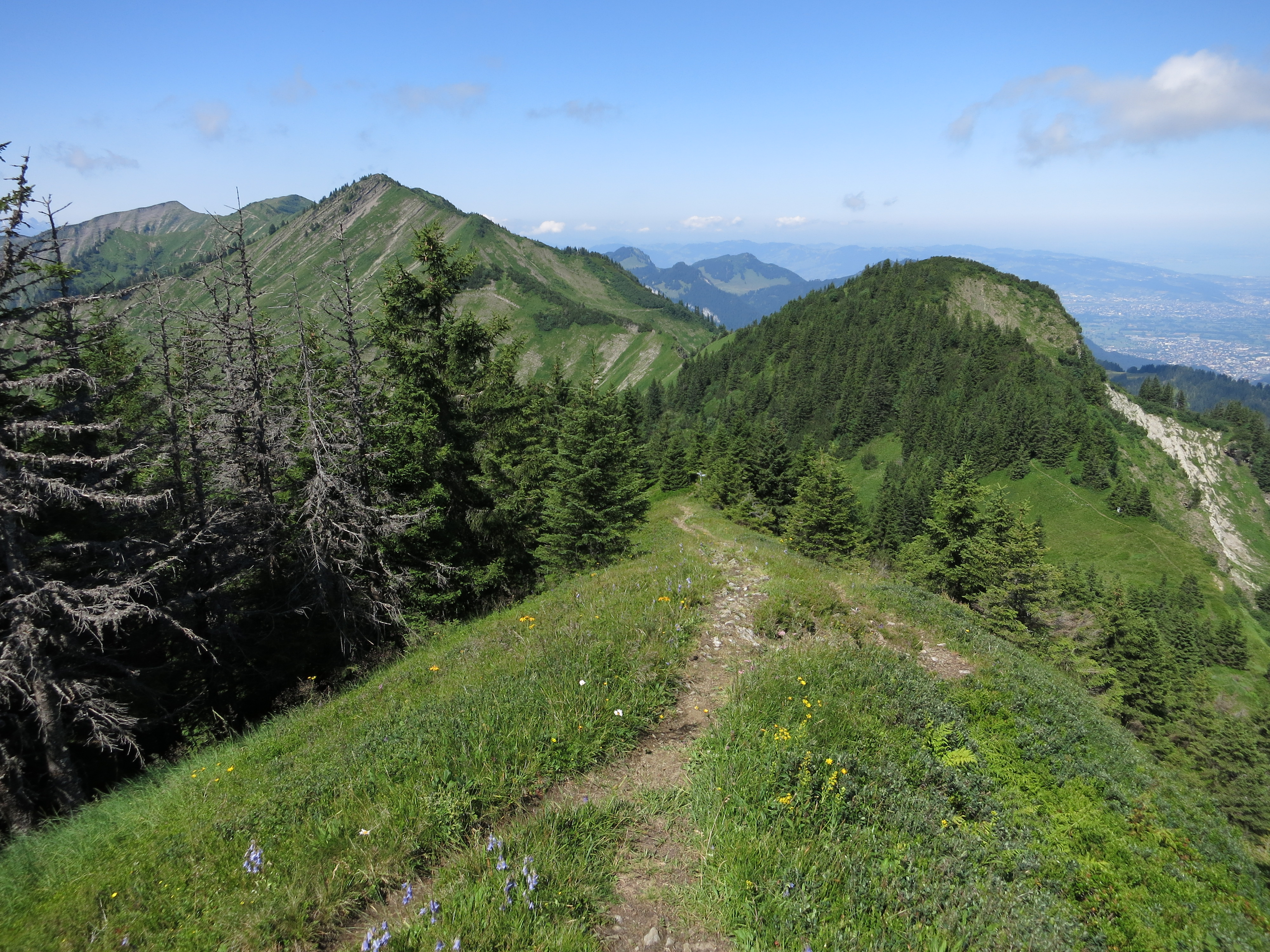 Mountain range First near Dornbirn, Austria